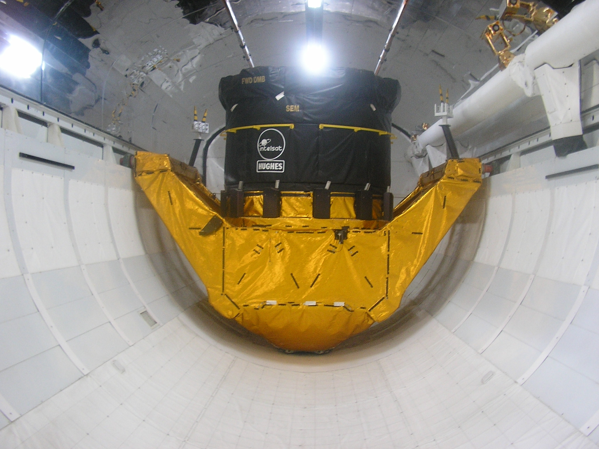 Display model of a Hughes Electronics Intelsat satellite, on display at Kennedy Space Center in the Space Shuttle Explorer in Cape Canaveral, Florida. Picture taken by myself, I release into public domain.